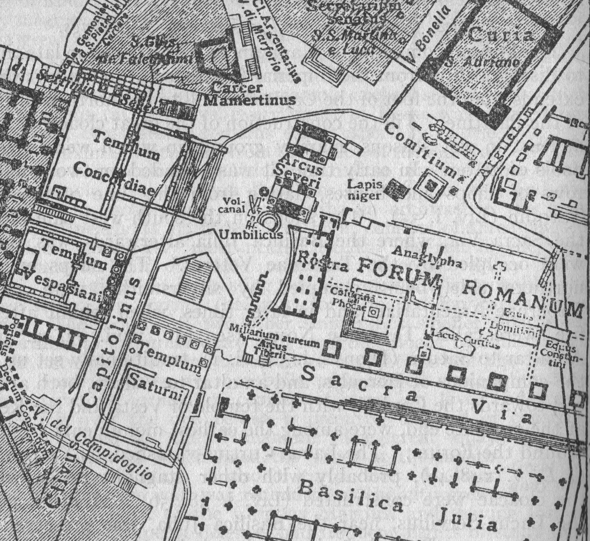 Detail of Figure 8 ("The Roman Forum and the Sacra Via"), The Encyclopedia Britannica, 13th edition (1926); Entry "Rome", vol. 23, pg 592. The detail depicts the western end of the Forum.